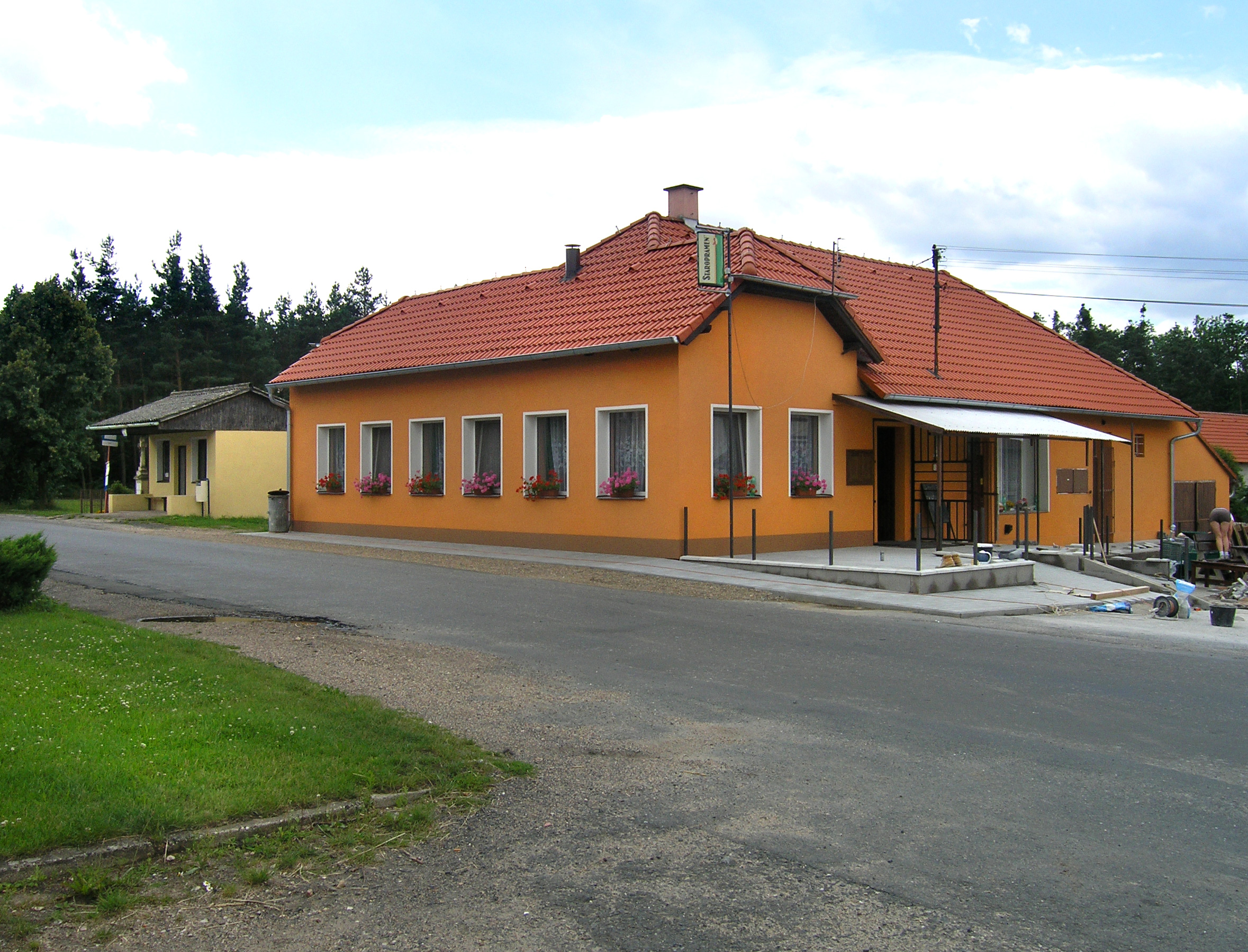 Pub in Lipec village, Czech Republic